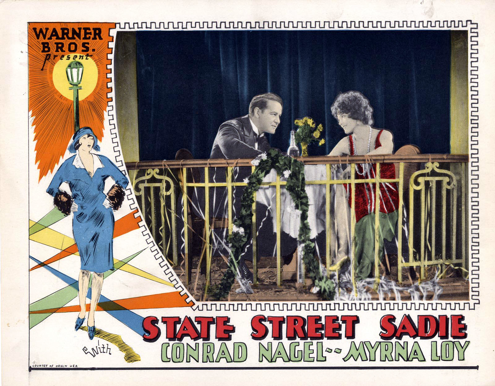 Lobby card for the American crime drama film State Street Sadie (1928).